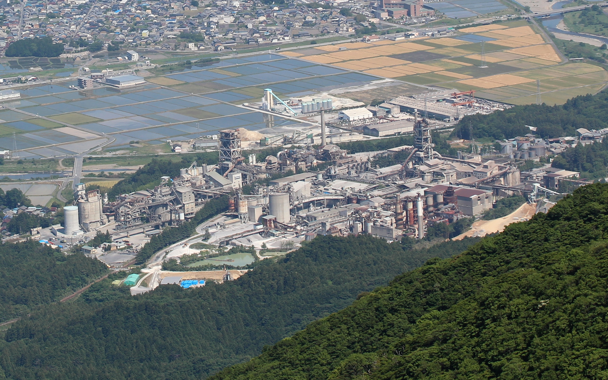 Taiheiyo Cement Fujiwara Plant seen from Mount Fujiwara in Inabe, Mie prefecture, Japan.